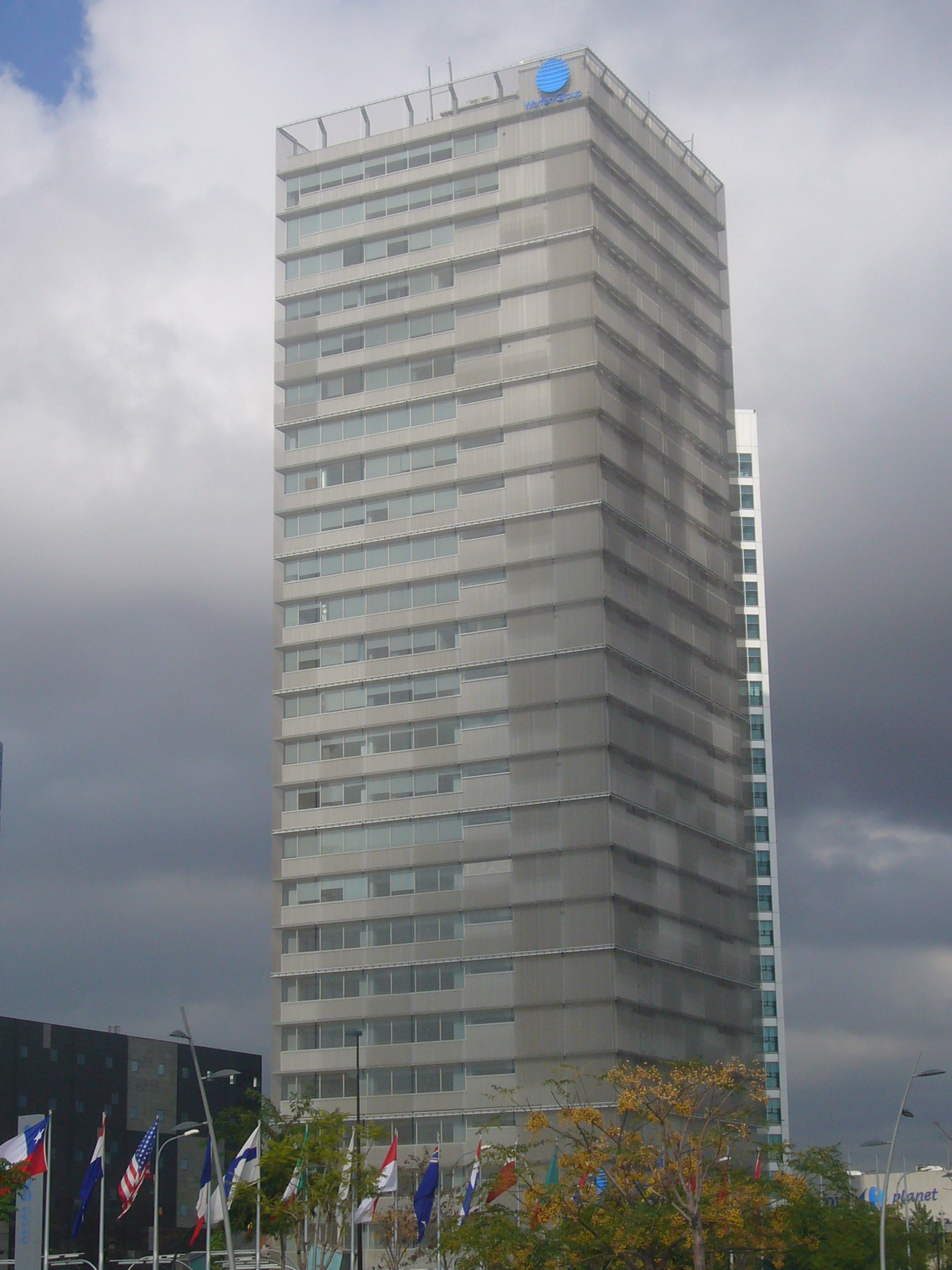 Torre Werfen